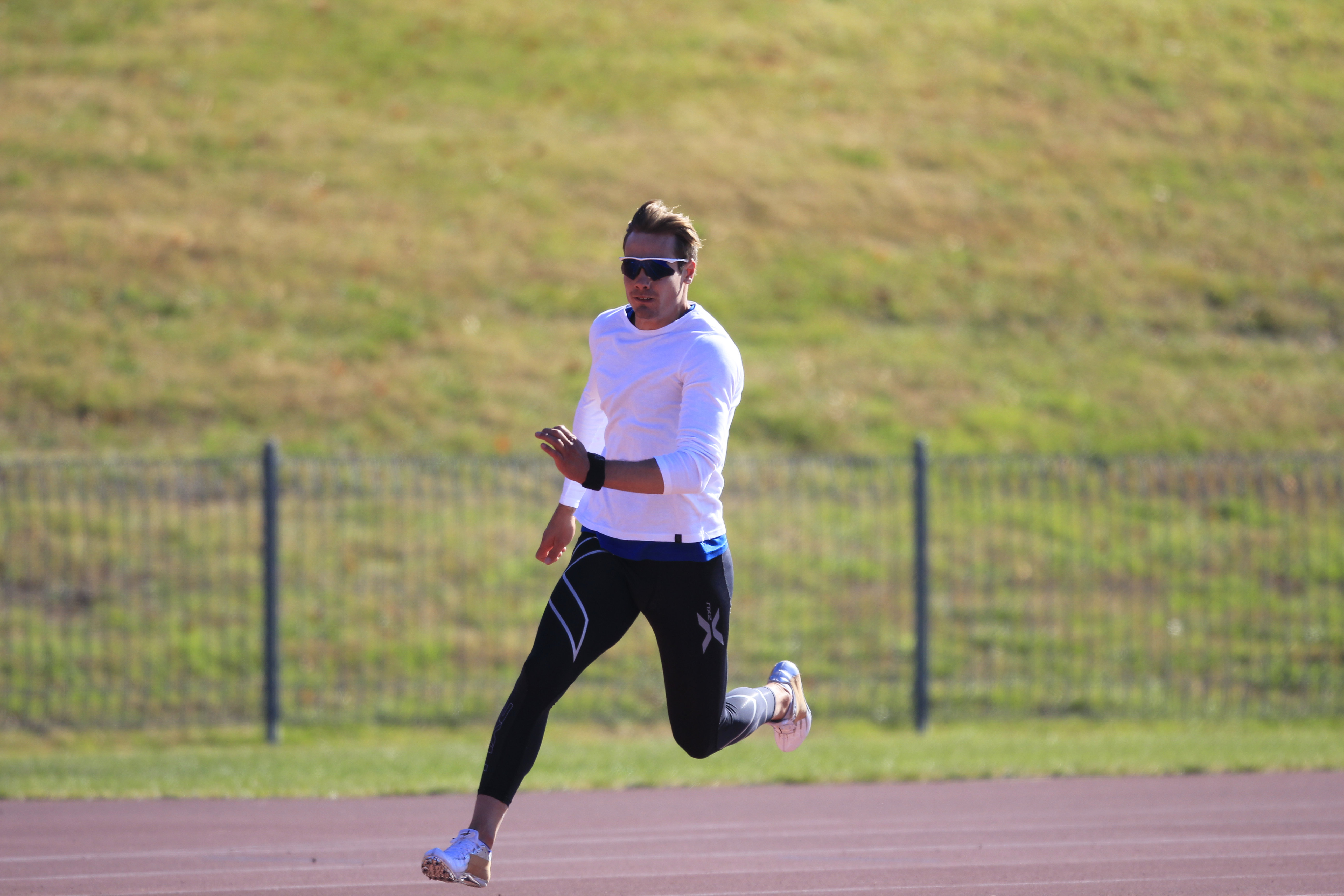 Evan O'Hanlon at the AIS Track and Field.